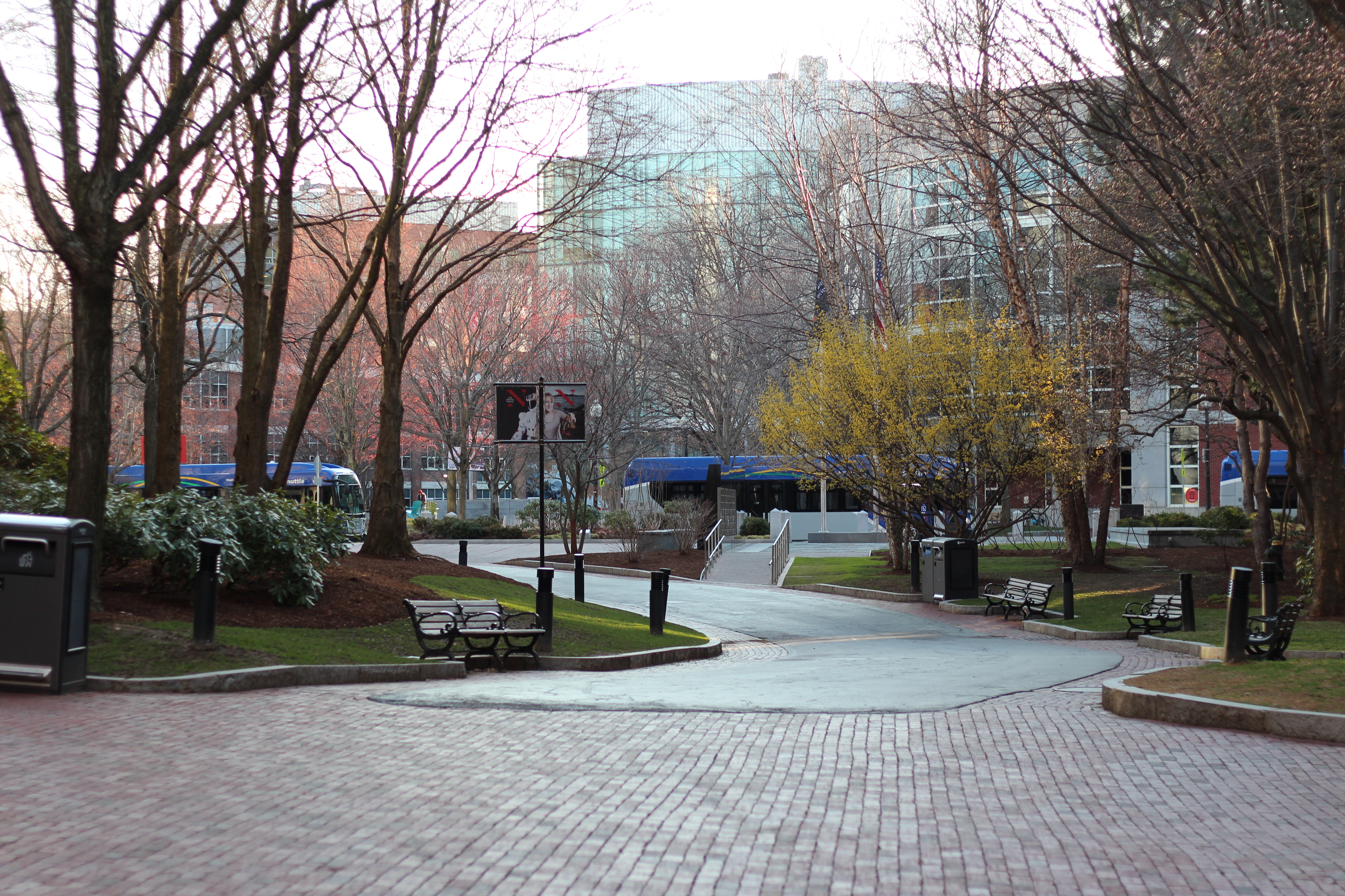 The Northeastern University campus during the 2020 Coronavirus pandemic after most students had left campus for the semester